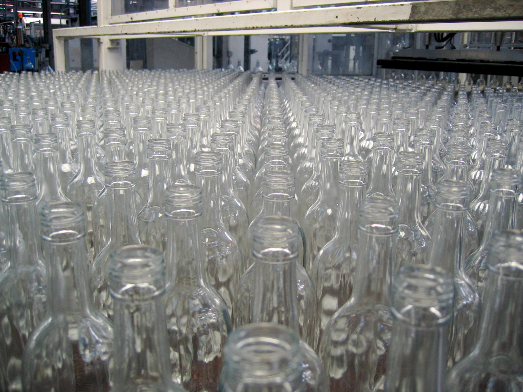 Manufacturing bottle (St-Gobain Cognac)